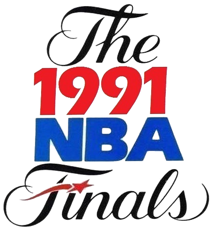 The text logo for the 1991 NBA Finals